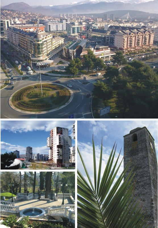 Up: Panorama of Modern Podgorica, with the Cathedral of the Resurrection of Christ and Millenium Bridge. Middle: Block V Down: Old royal garden around the winter palace of former Montenegrin royal family. Right: Clock tower "Sahat-kula" in the Old City.